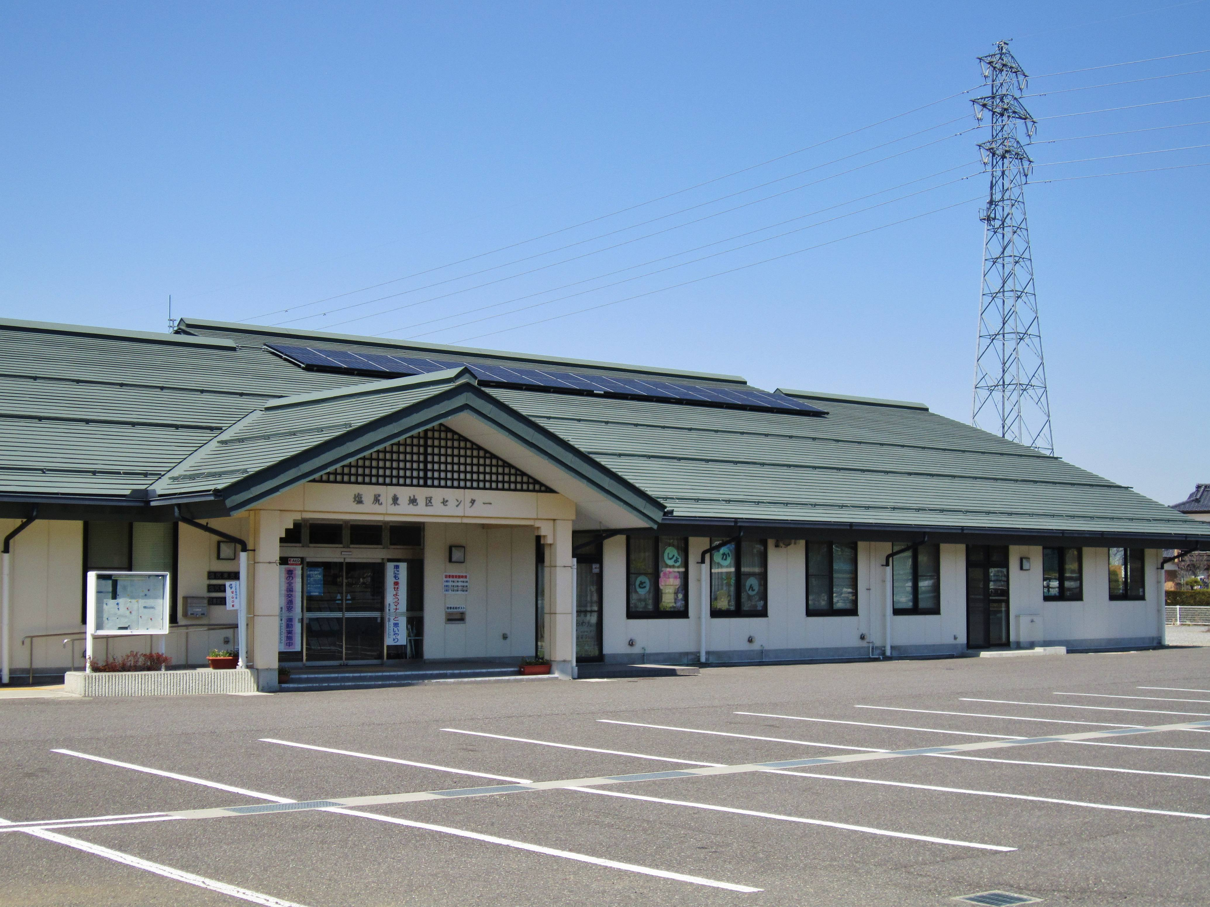 Shiojiri city Shiojirihigashi branch office (Shiojirihigashi area center / Shiojirihigashi kominkan / Shiojirihigashi library).